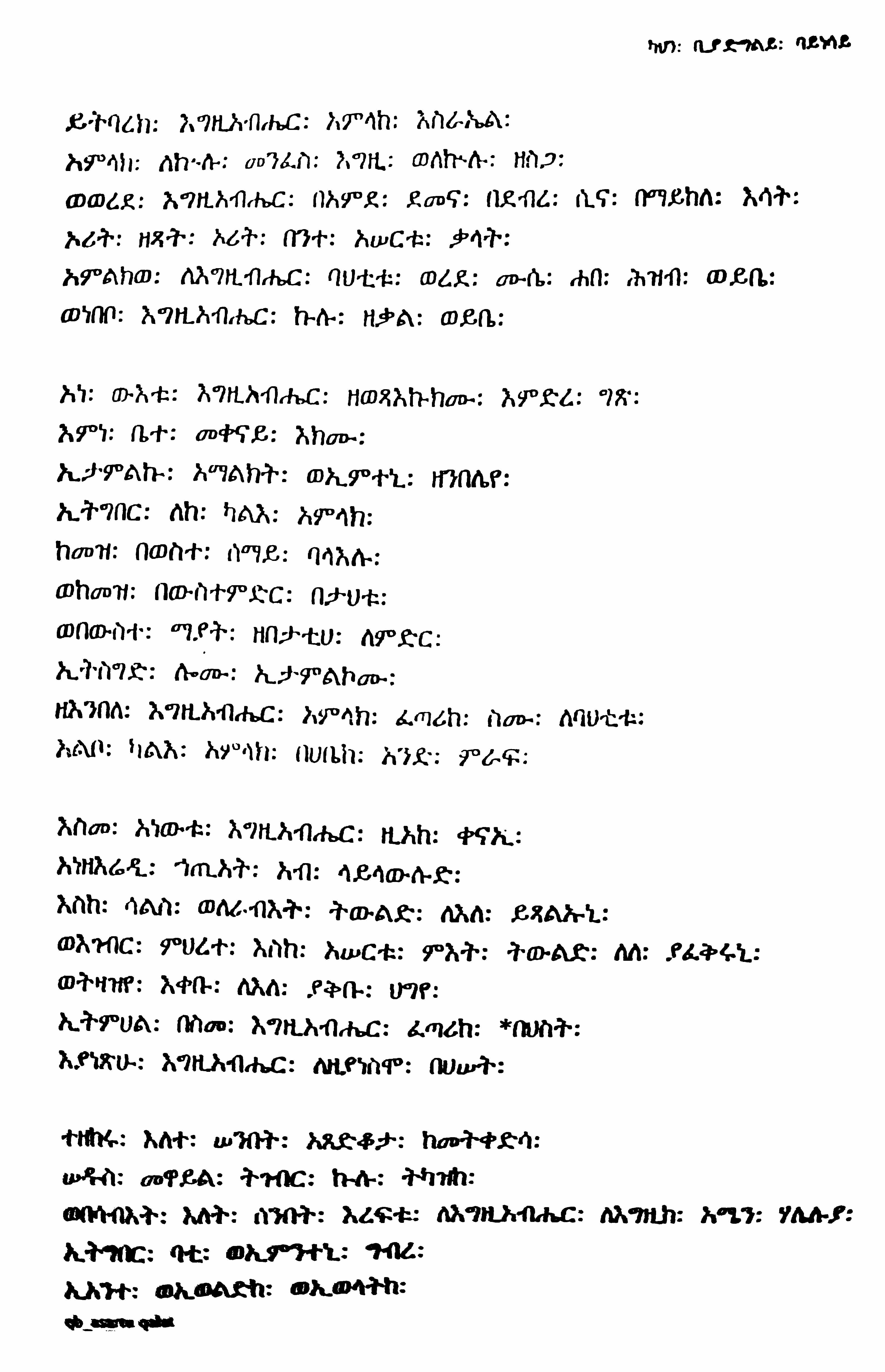 A page of a Beta Israel prayer book